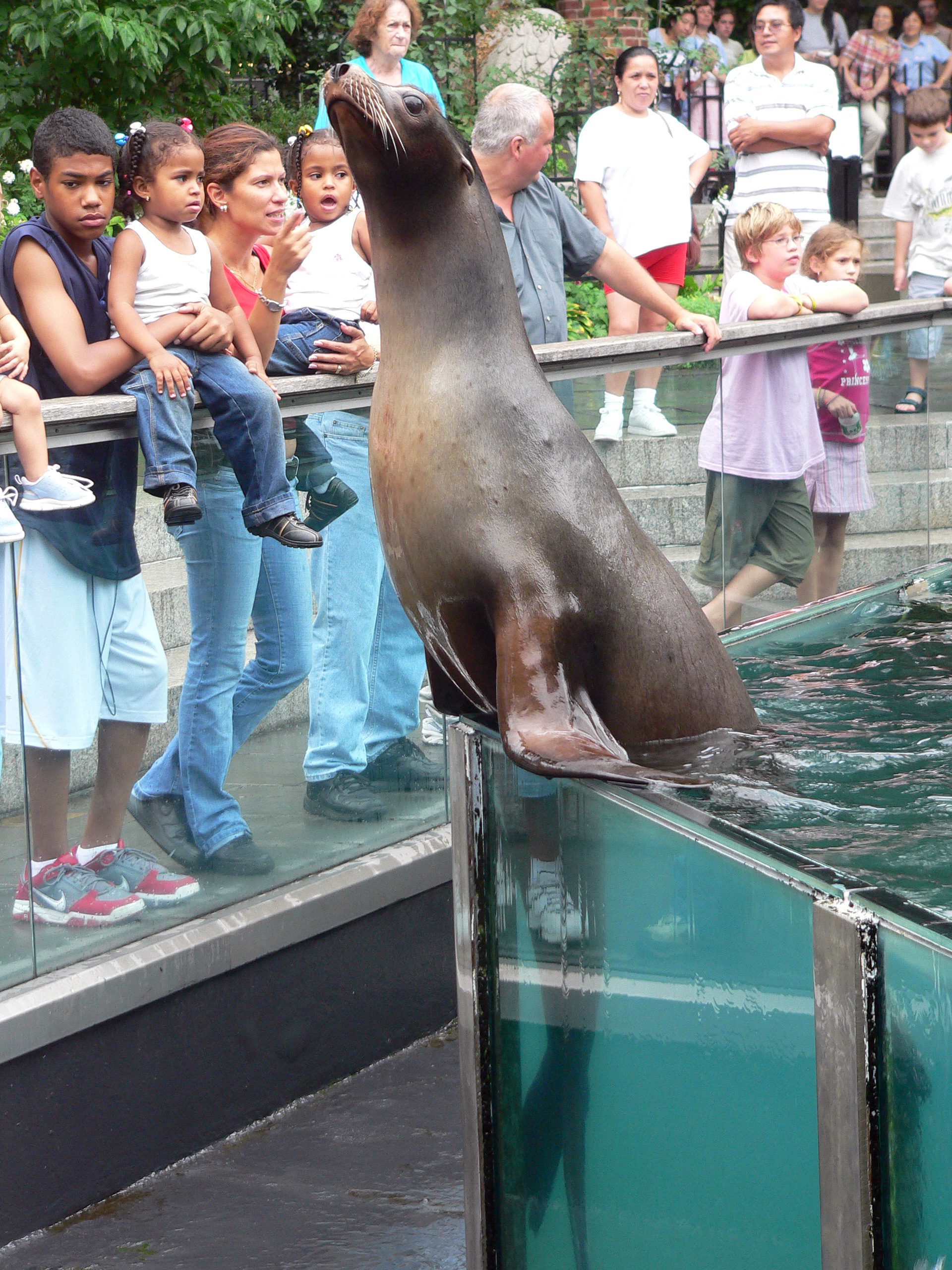 A California sea lion at Central Park Zoo. It has climbed to the edge of its tank awaiting feeding.